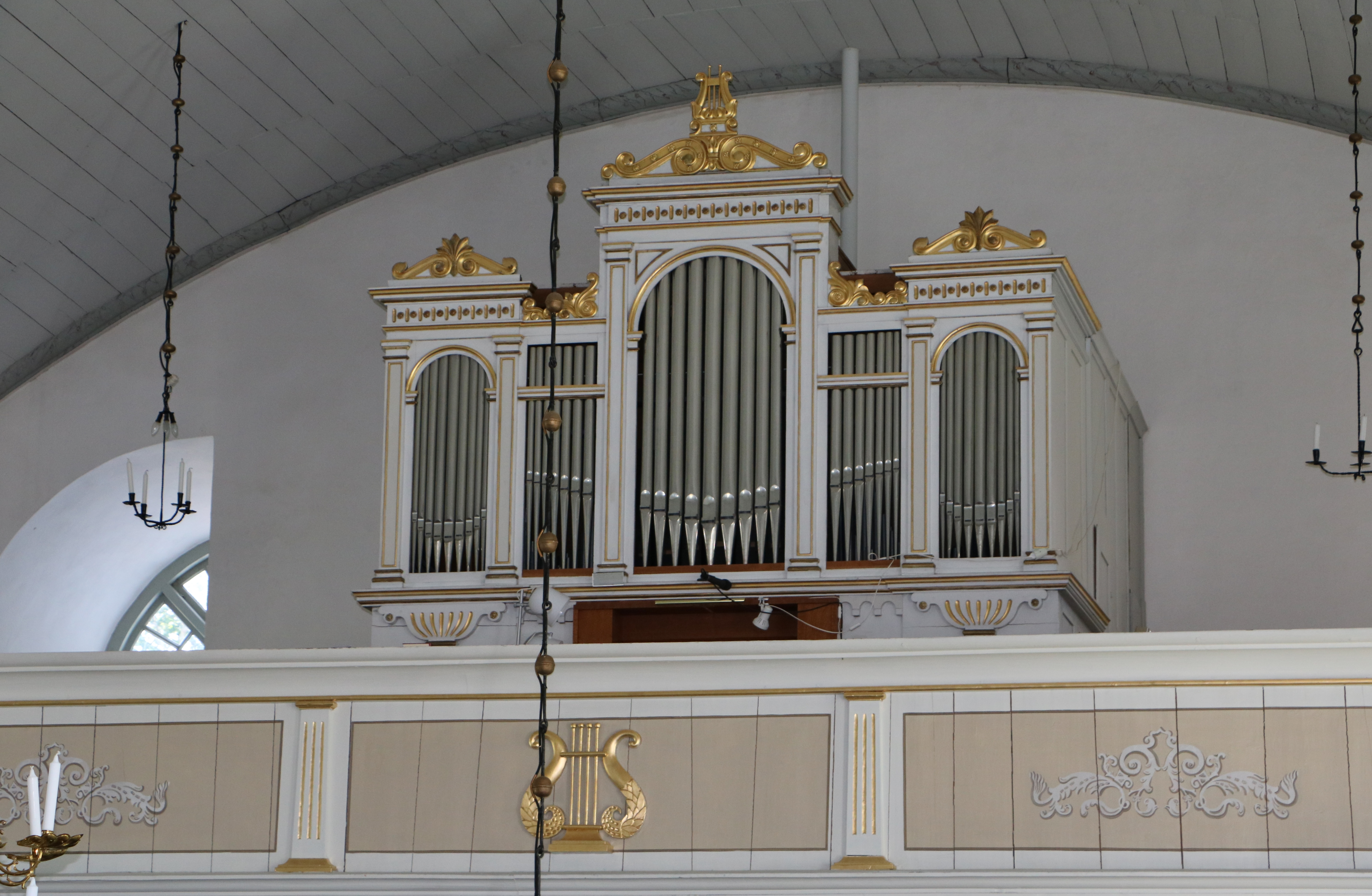 Alböke Church.The organ with front drawn by O A Mankell 1869.